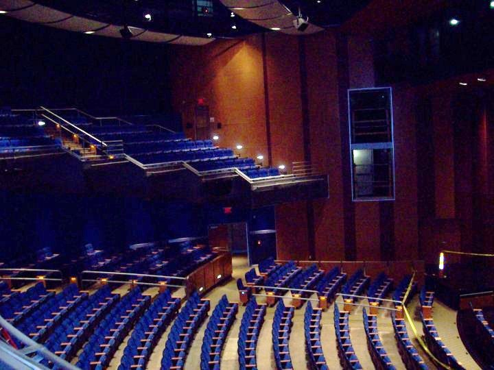 The Corbett Theater in the Erich Kunzel Center for Arts and Education in Cincinnati, Ohio.